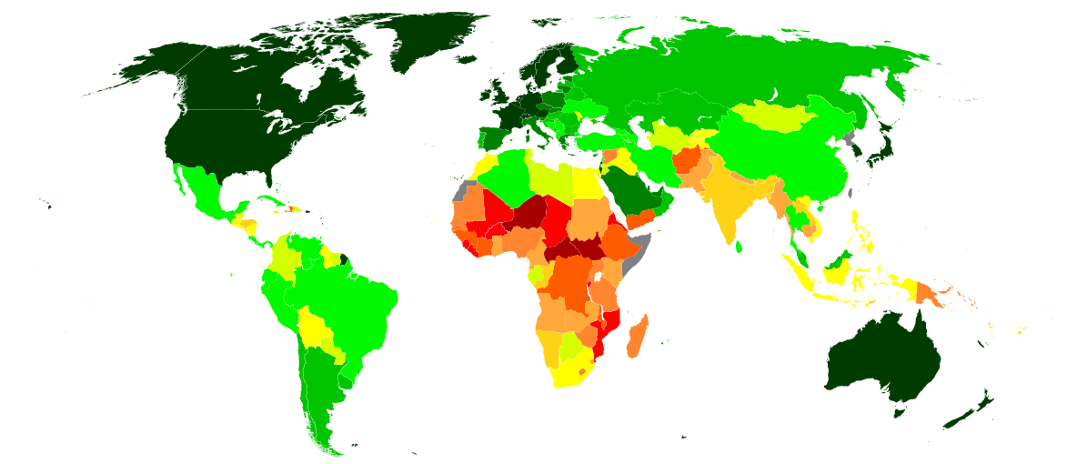 World map of countries by Human Development Index categories in increments of 0.050 (based on 2017 data, published on 14 September 2018).